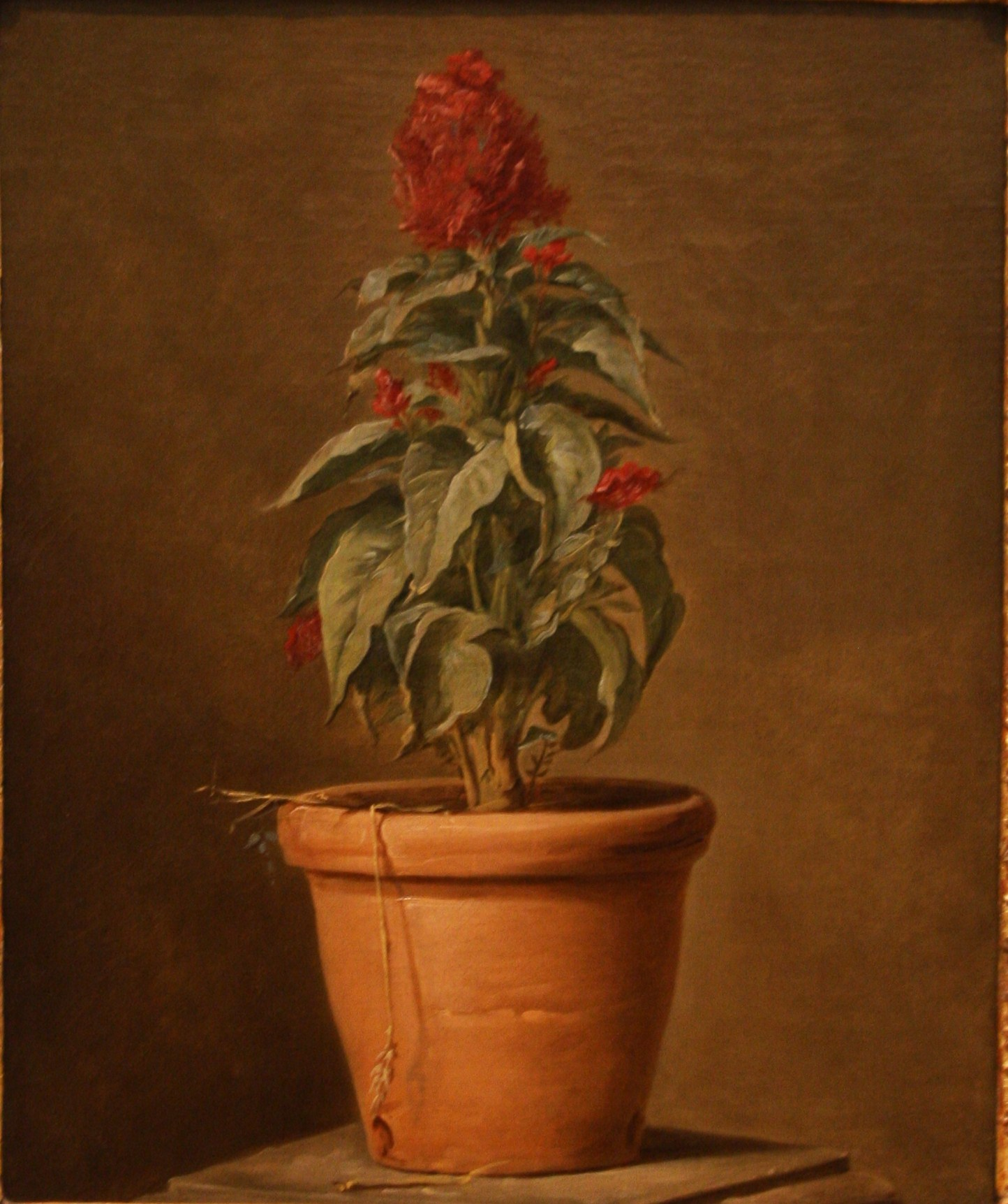 "A Potted Plant". Painting by Henri-Horace Roland Delaporte (1724-1793).